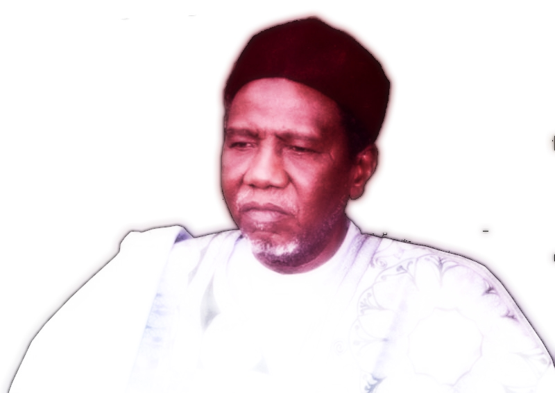 Aminu Saleh